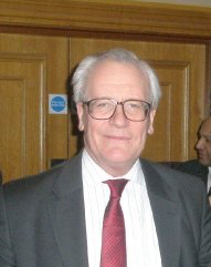 This picture of Patrick Minford was taken at the MSc Diner for Economic Students at Cardiff University in February 2008.